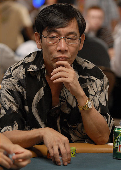 Chau Giang playing at the 2008 World Series of Poker